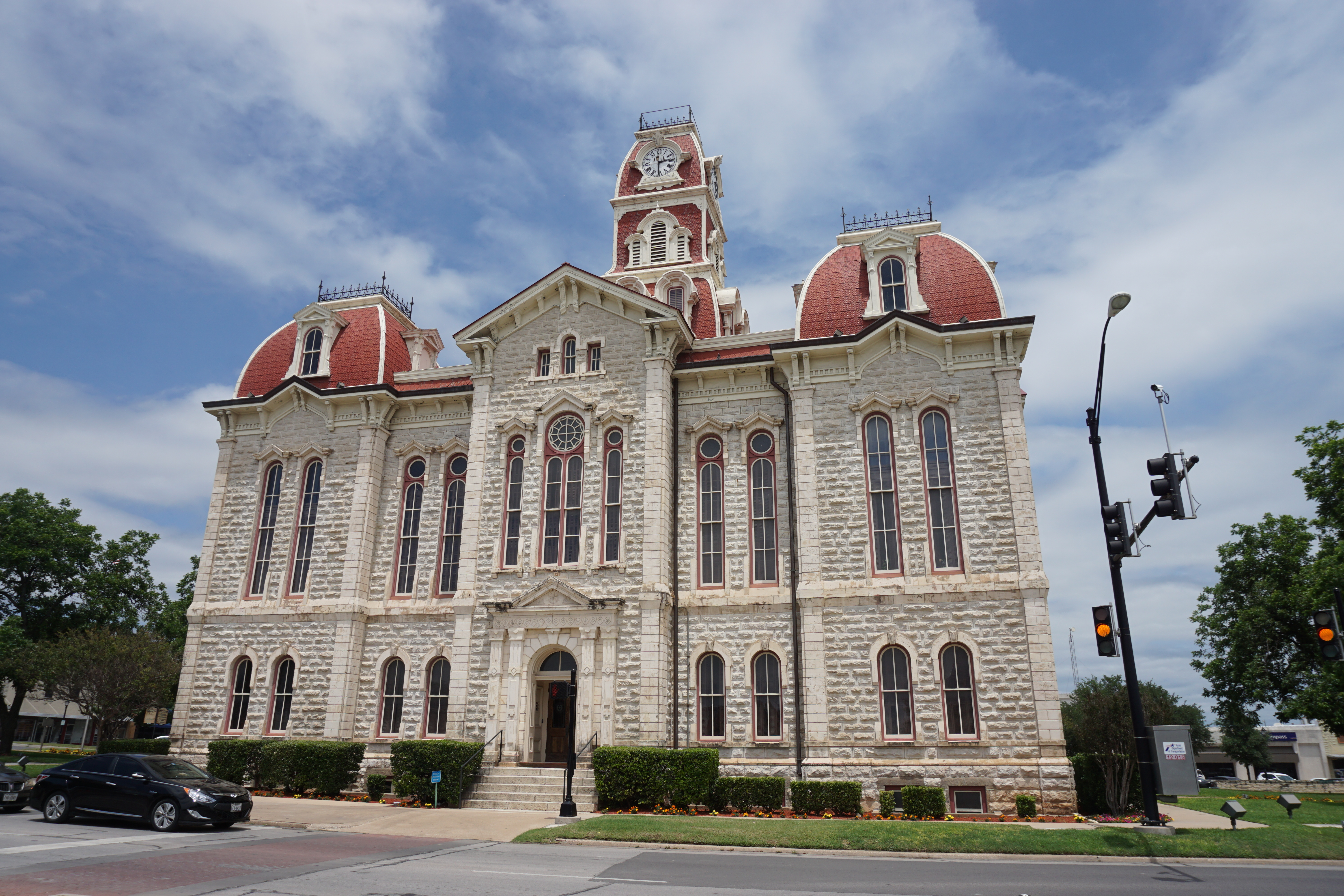 The Parker County Courthouse in Weatherford, Texas (United States).